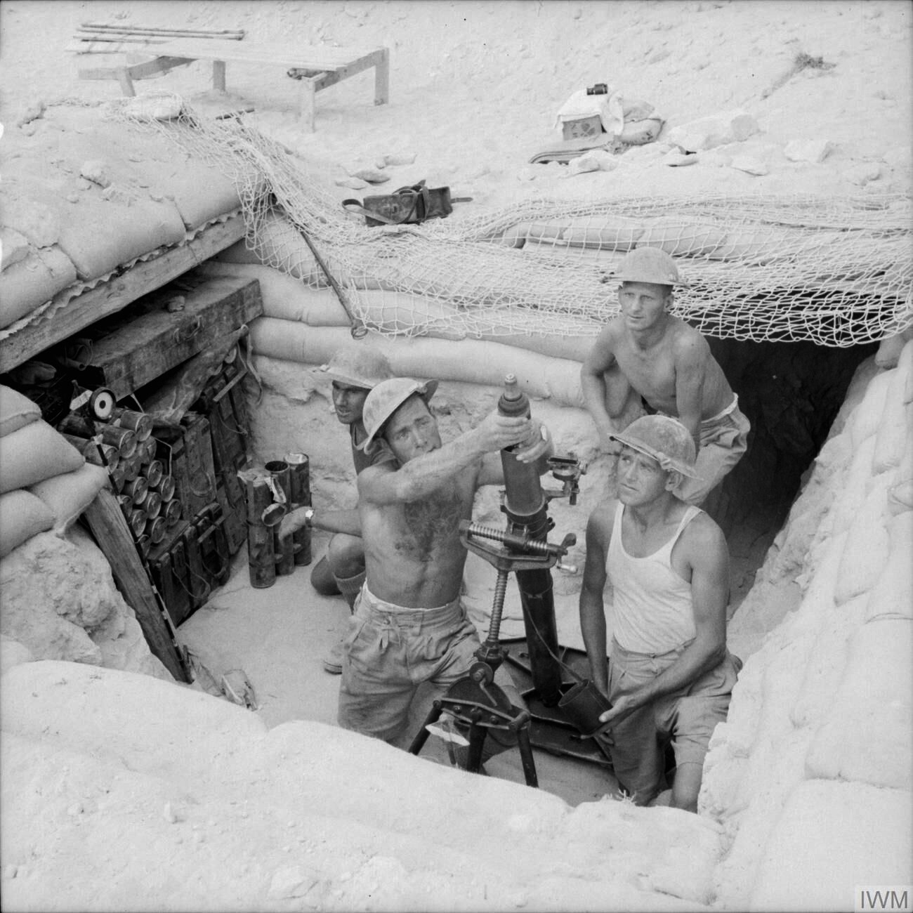 The British Army in North Africa 1940 A trench mortar post in the Western Desert, 30 October 1940.